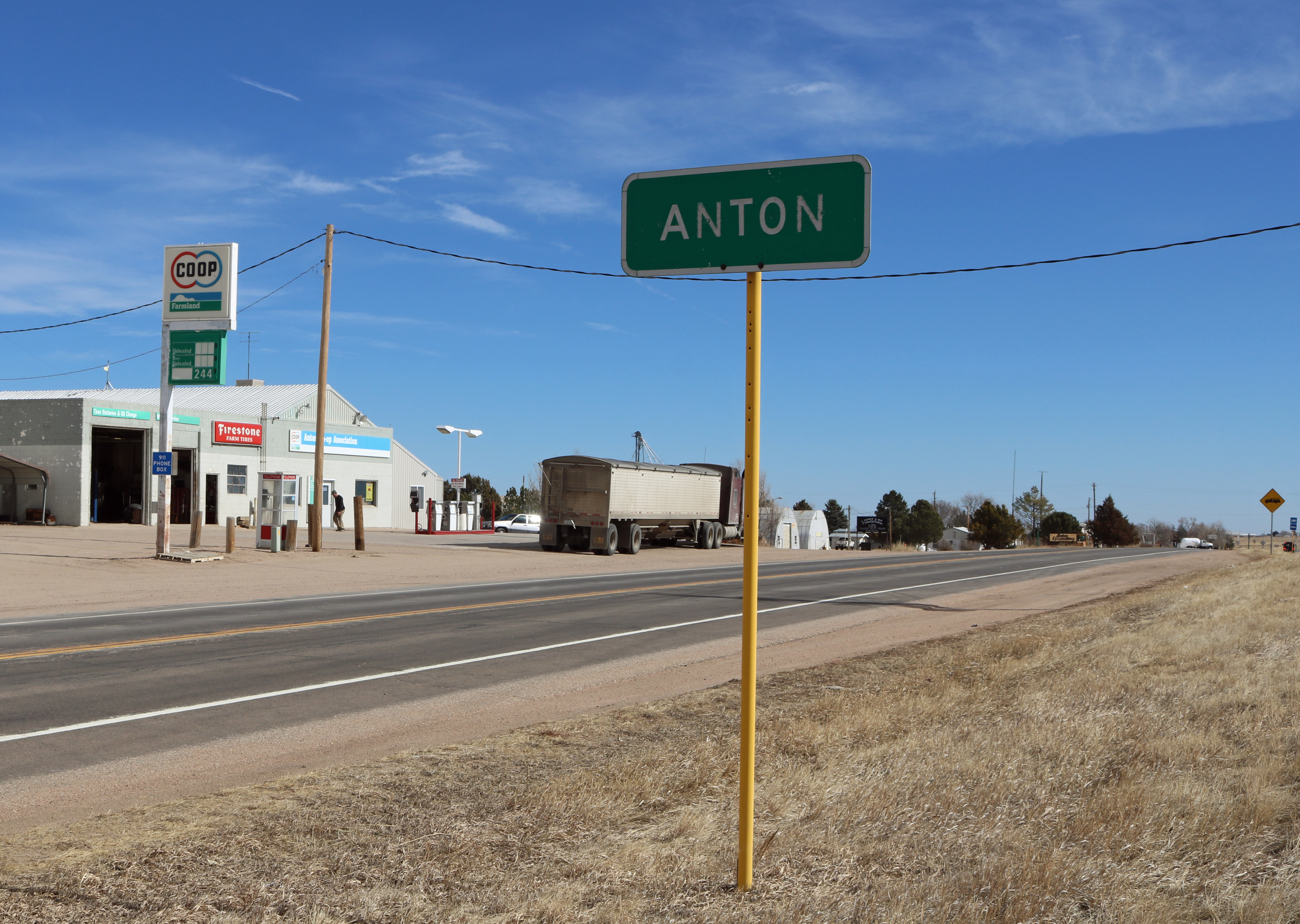 Anton, Colorado, in Washington County. The highway in the picture is U.S. Route 36.